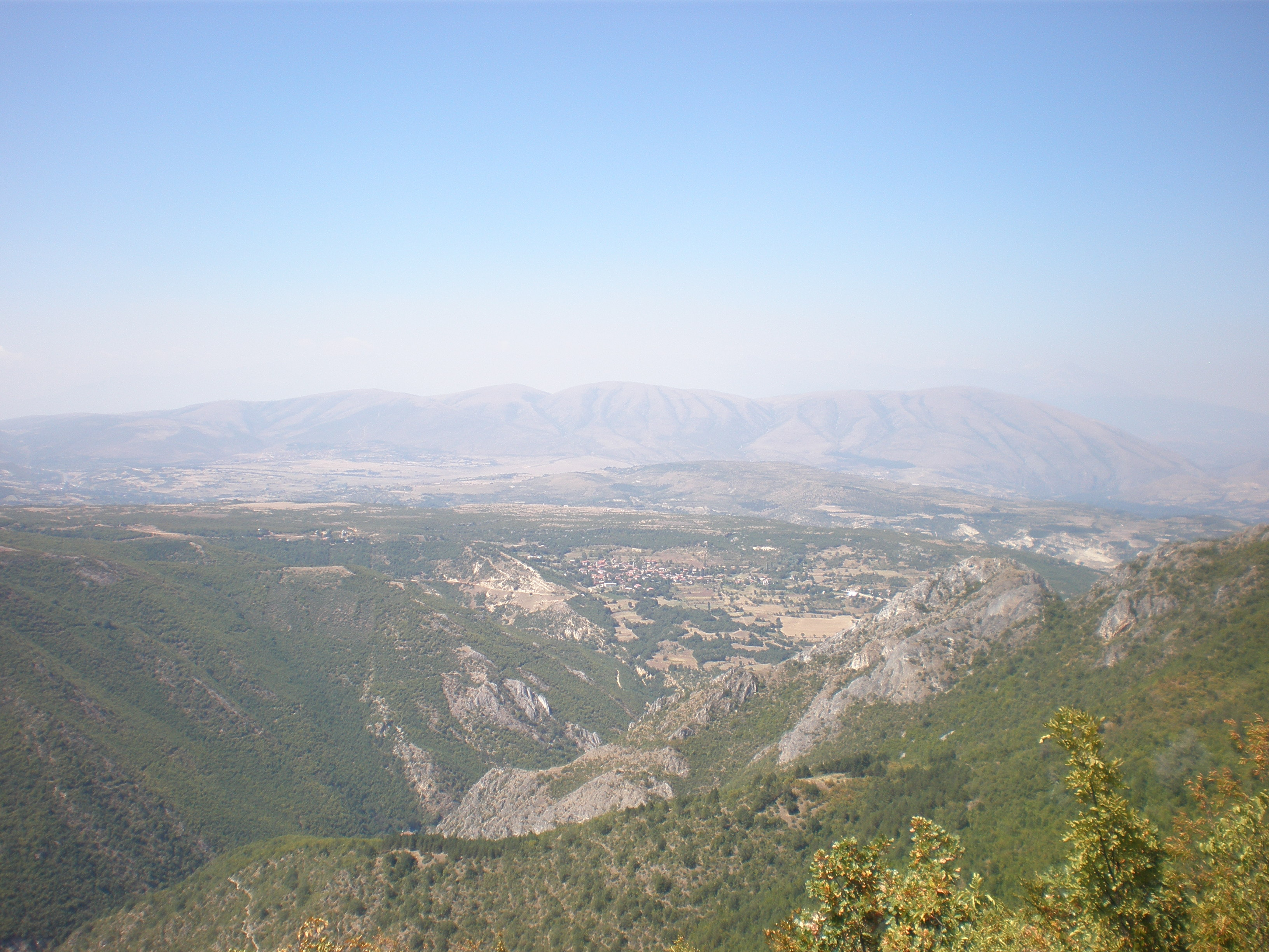 View of mountain Zeden from Matka Canyon, Macedonia